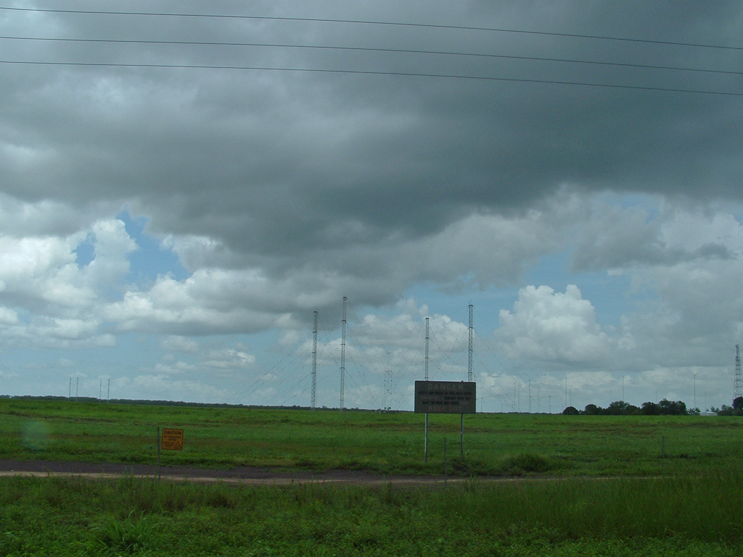 Middle Point Antenna Farm. Owned by the Australian Government.